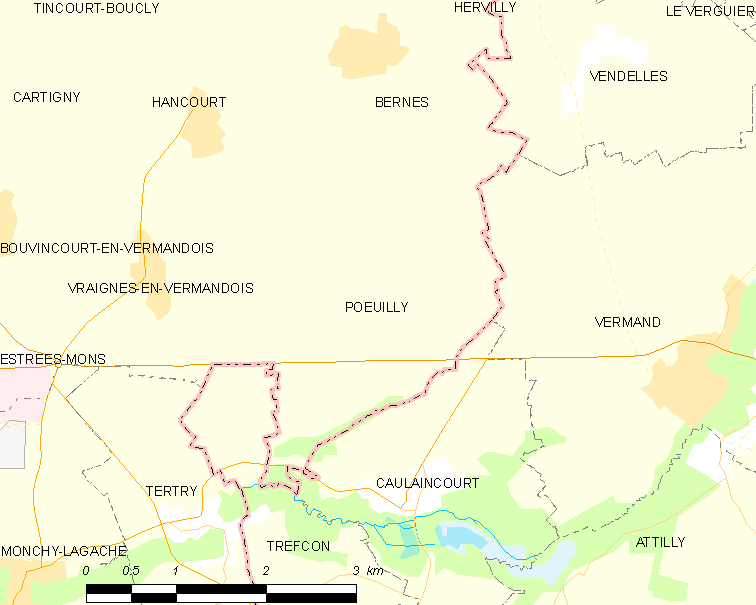 Map of French municipality Pœuilly